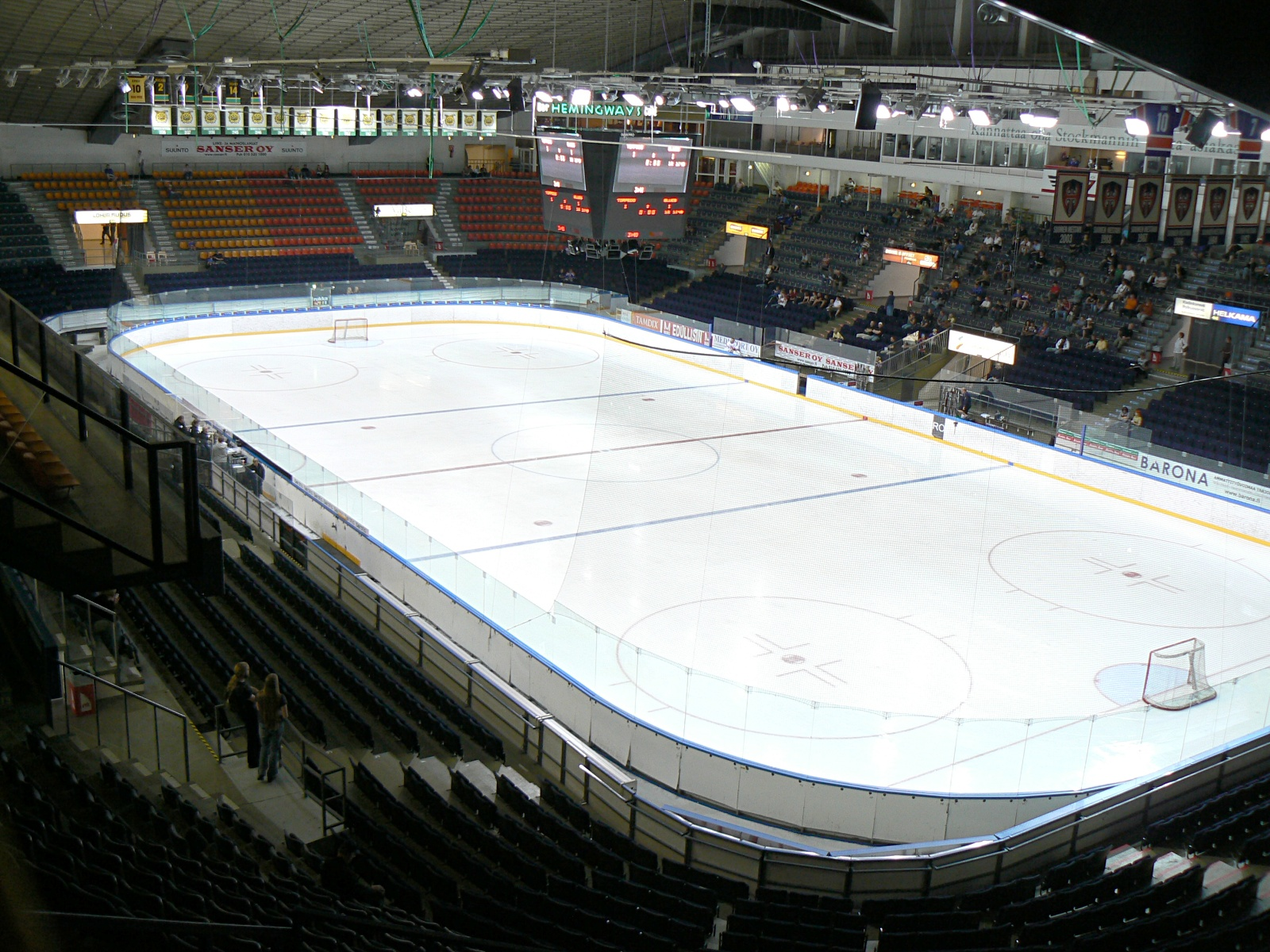 Hakametsä hockey arena, Tampere, Finland